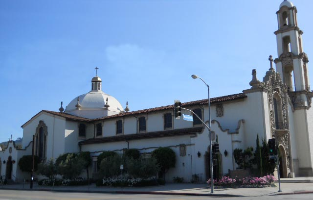 St. Charles Borromeo Church, North Hollywood, CA, side view